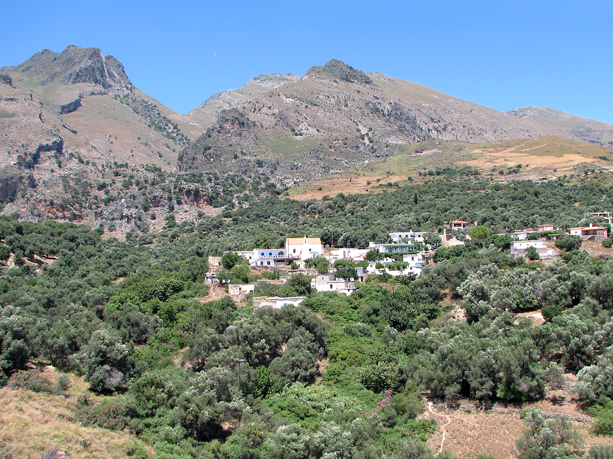 Argoules as seen from Ammoudi